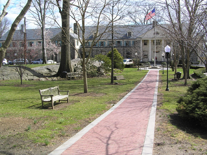 I took this photograph of Eastchester Town Hall in the afternoon of April 6, 2006. -- GNU Free Documentation License